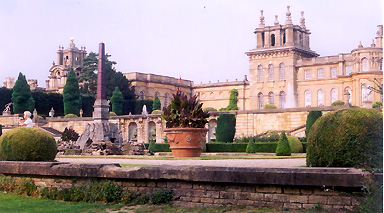 Italian Garden, Blenheim Palace, England.